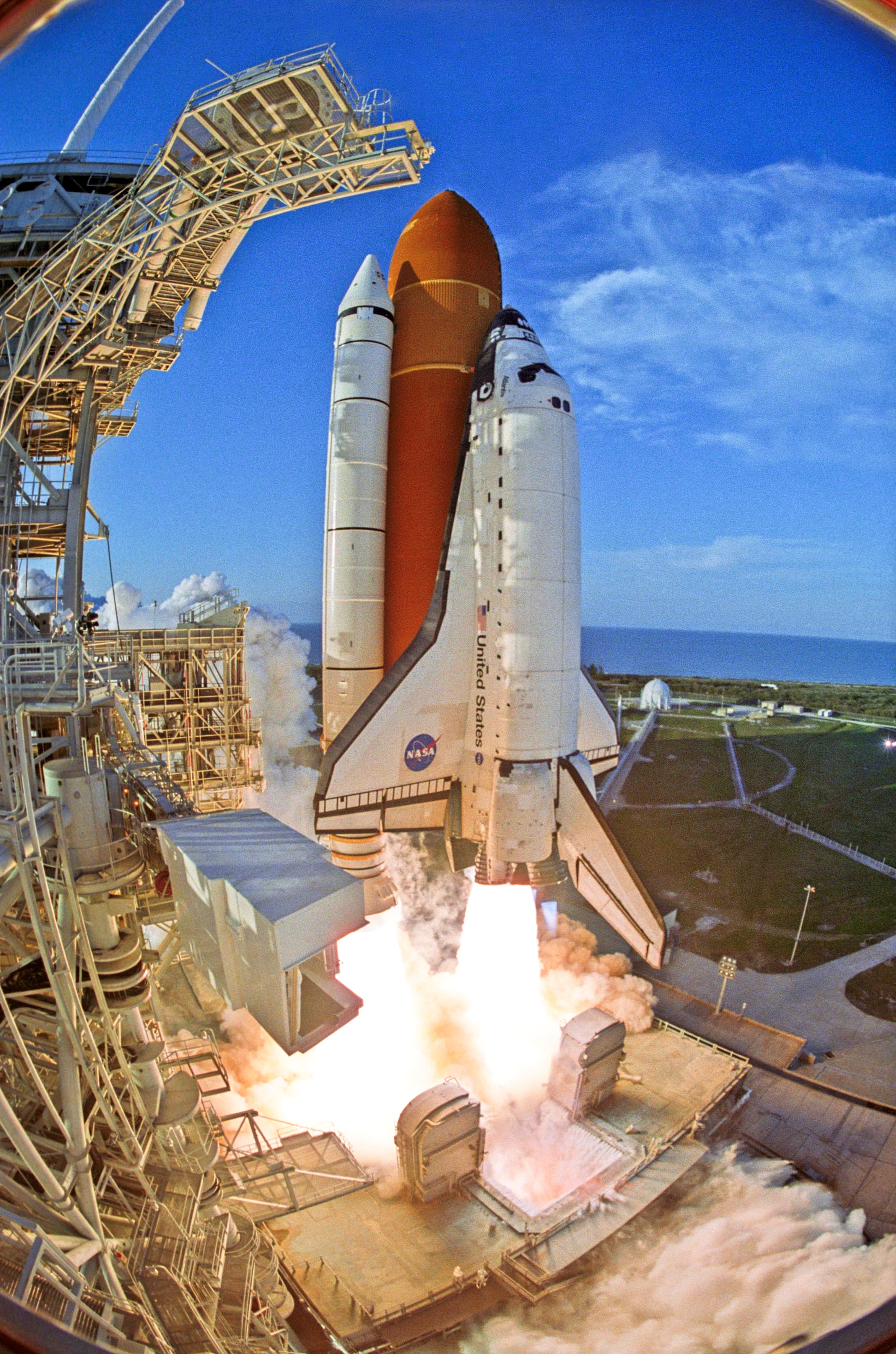 Captured with a remote camera equipped with a special "fish-eye" lens, the Space Shuttle Atlantis and its seven-member STS-117 crew head toward Earth-orbit and a scheduled link-up with the International Space Station. Liftoff from Kennedy Space Center's launch pad 39A occurred at 7:38 p.m. (EDT) on June 8, 2007. Onboard are astronauts Rick Sturckow, commander; Lee Archambault, pilot; Jim Reilly, Patrick Forrester, John "Danny" Olivas, Steven Swanson and Clayton Anderson, all mission specialists. Anderson will join Expedition 15 in progress to serve as a flight engineer aboard the station. Atlantis will dock with the orbital outpost on Sunday, June 10, to begin a joint mission that will increase the complex's power generation capability. Using the shuttle and station robotic arms and conducting three scheduled spacewalks, the astronauts will install another set of giant solar array wings on the station and retract another array, preparing it for a future move.